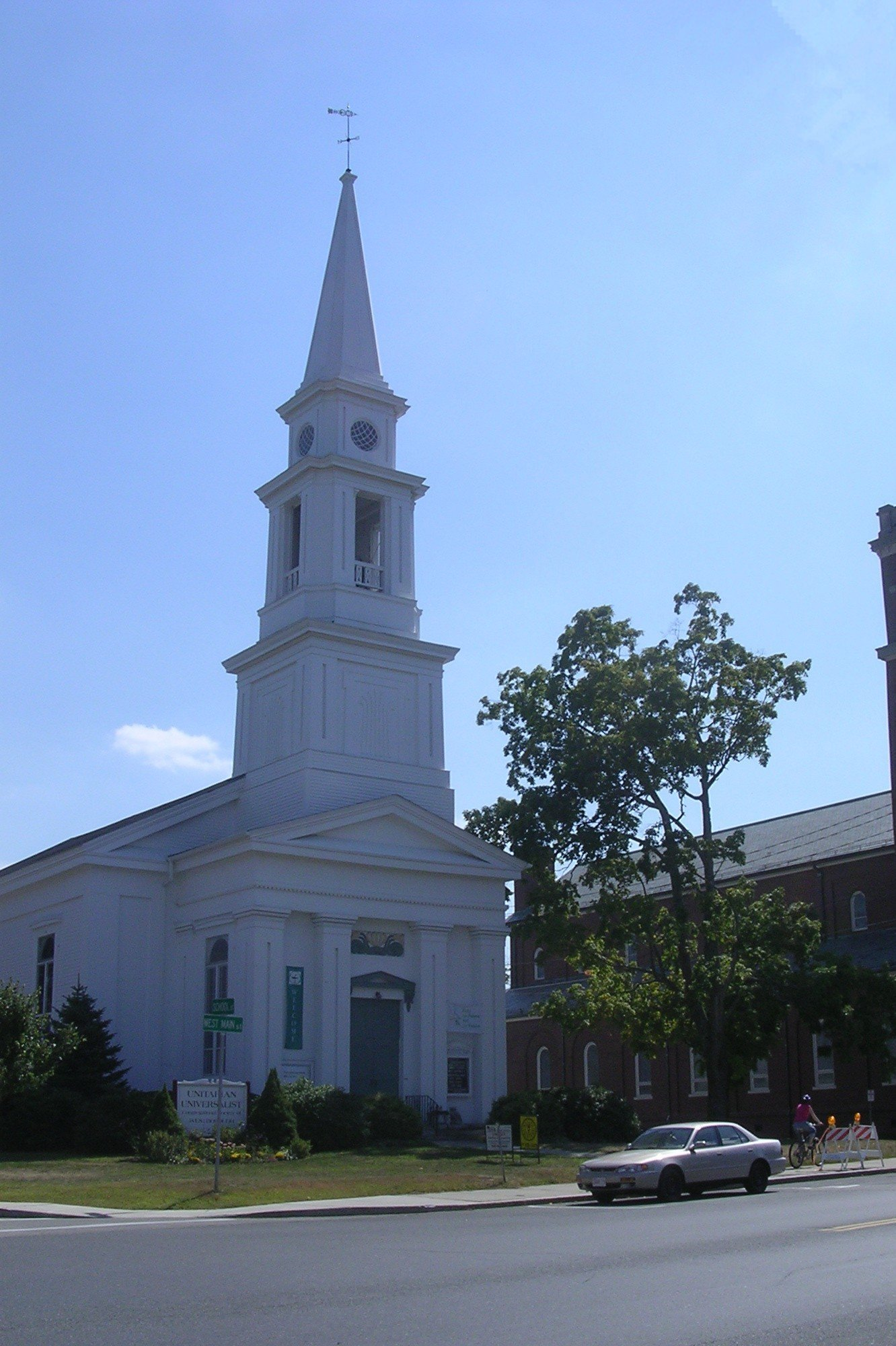 Unitarian Universalist Congregational Society of Westborough Massachusetts